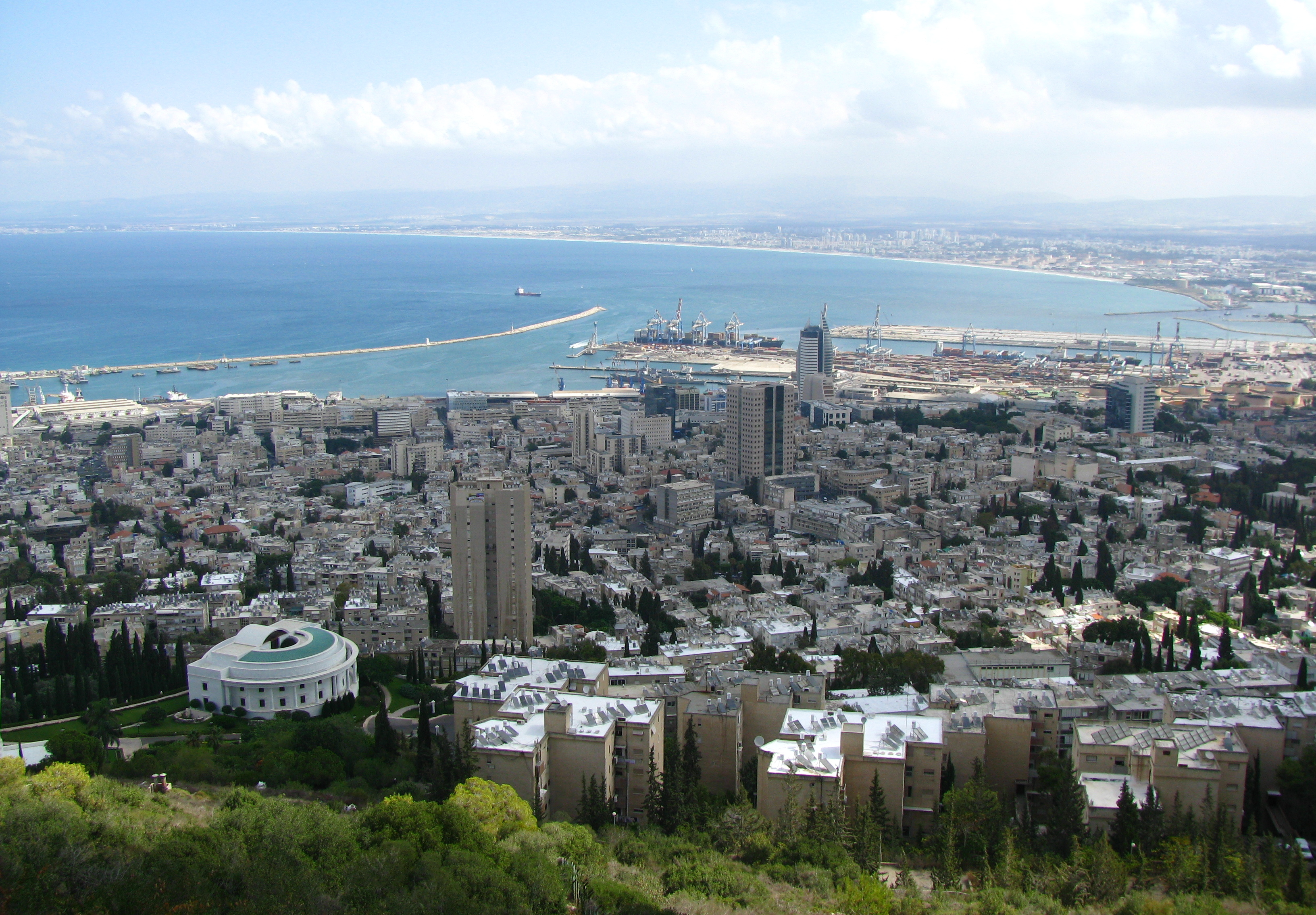 View of Haifa downtown and bay from mount Carmel